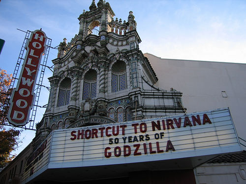 Hollywood Theater